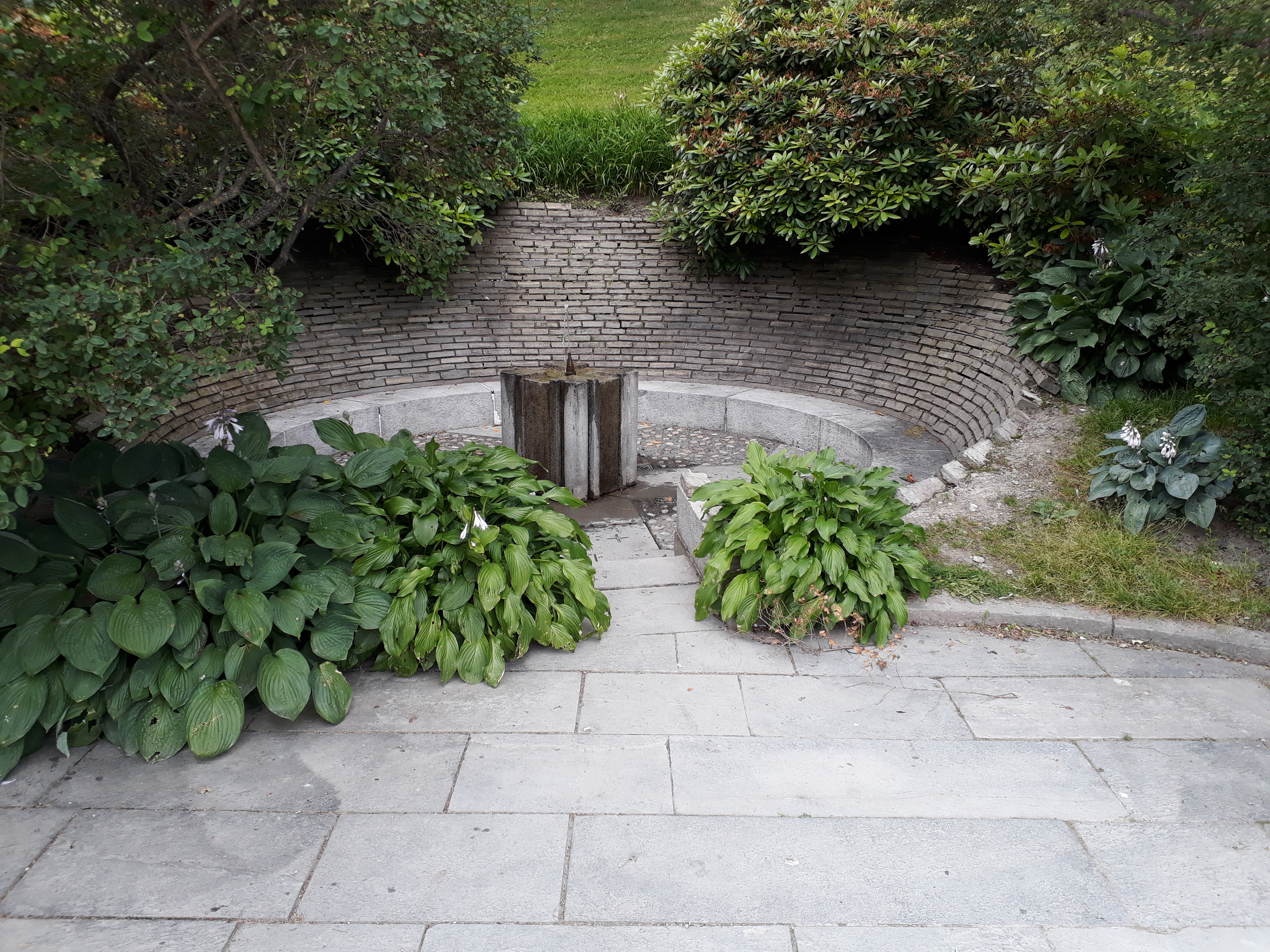 Olavskilden, Trondheim